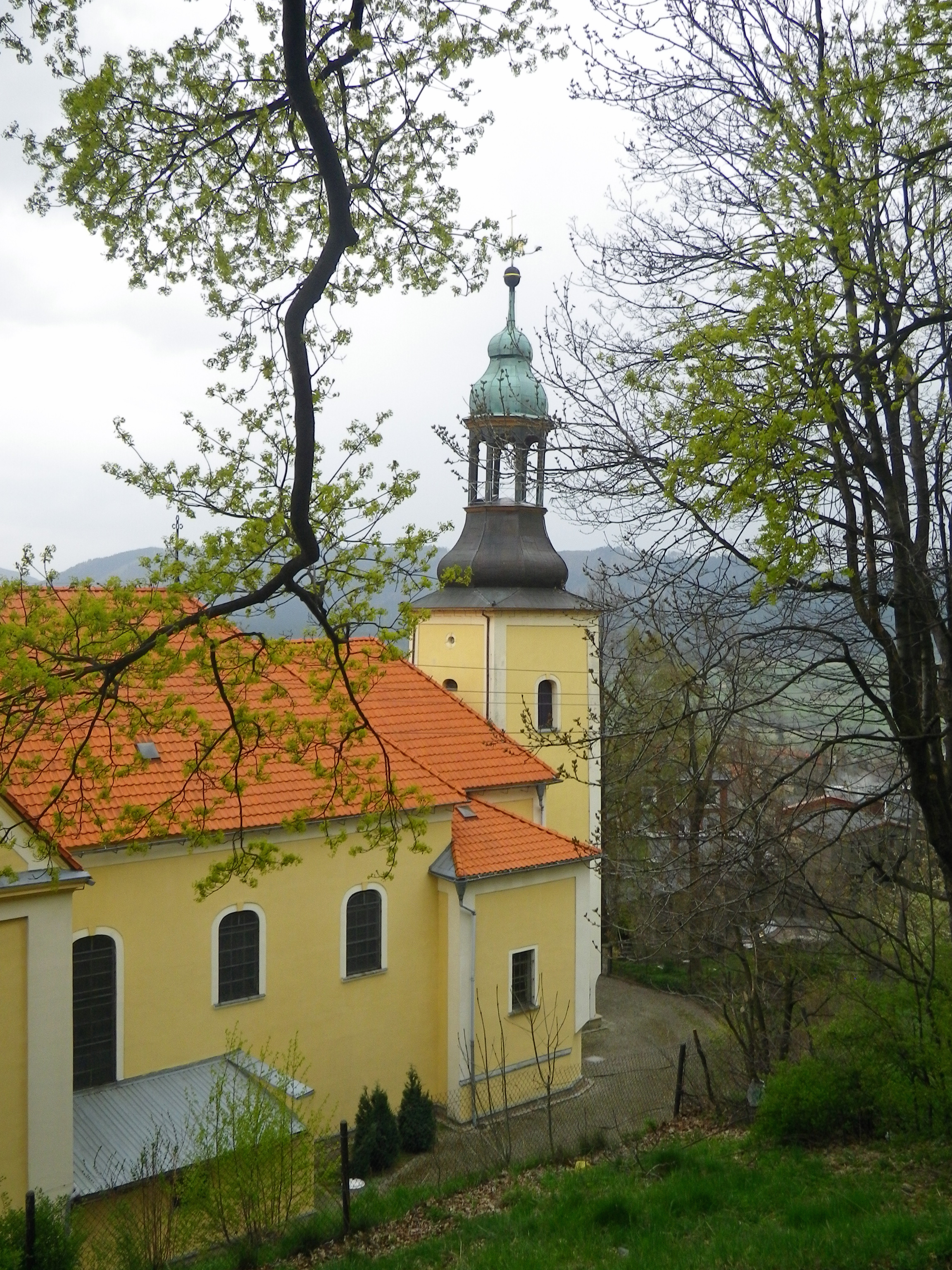 Holy Trinity church in Boguszów-Gorce (Lower Silesian Voivodeship, Poland)